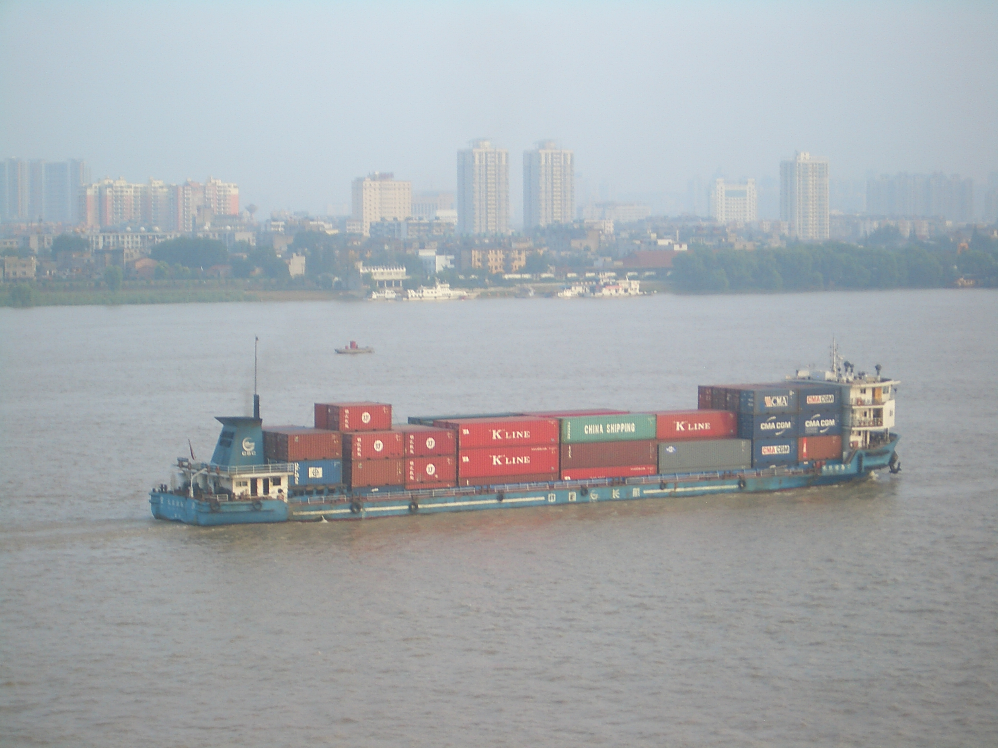 Cargo boats on the Changjiang (Yangtze River) in Wuhan, seen from the Second Changjiang Bridge.